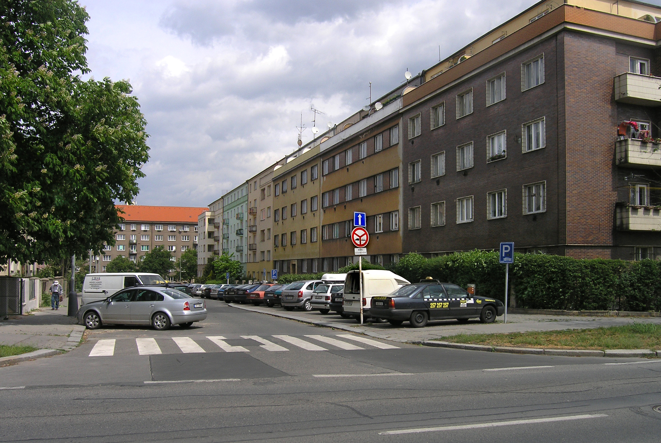 Pelhřimovská street at Michle, Prague